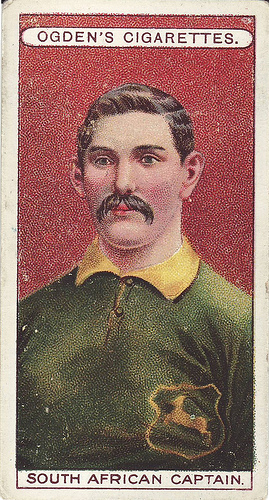 Paul Roos, player and captain of the South Africa national rugby team.